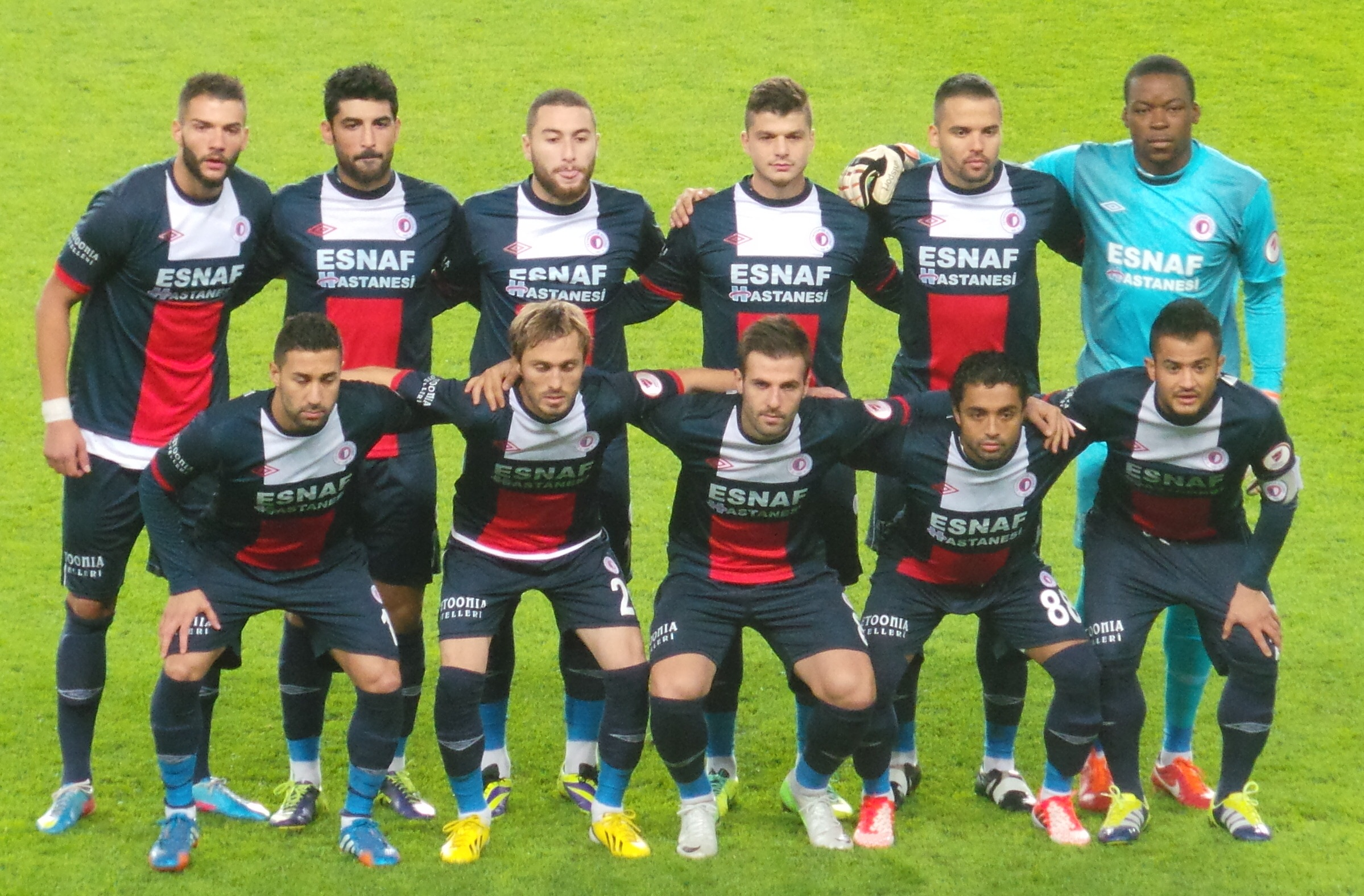 Fenerbahçe'yi kendi sahasında mağlup ederek Türkiye Kupası'nda safdışı bırakan Fethiyespor kadrosu.